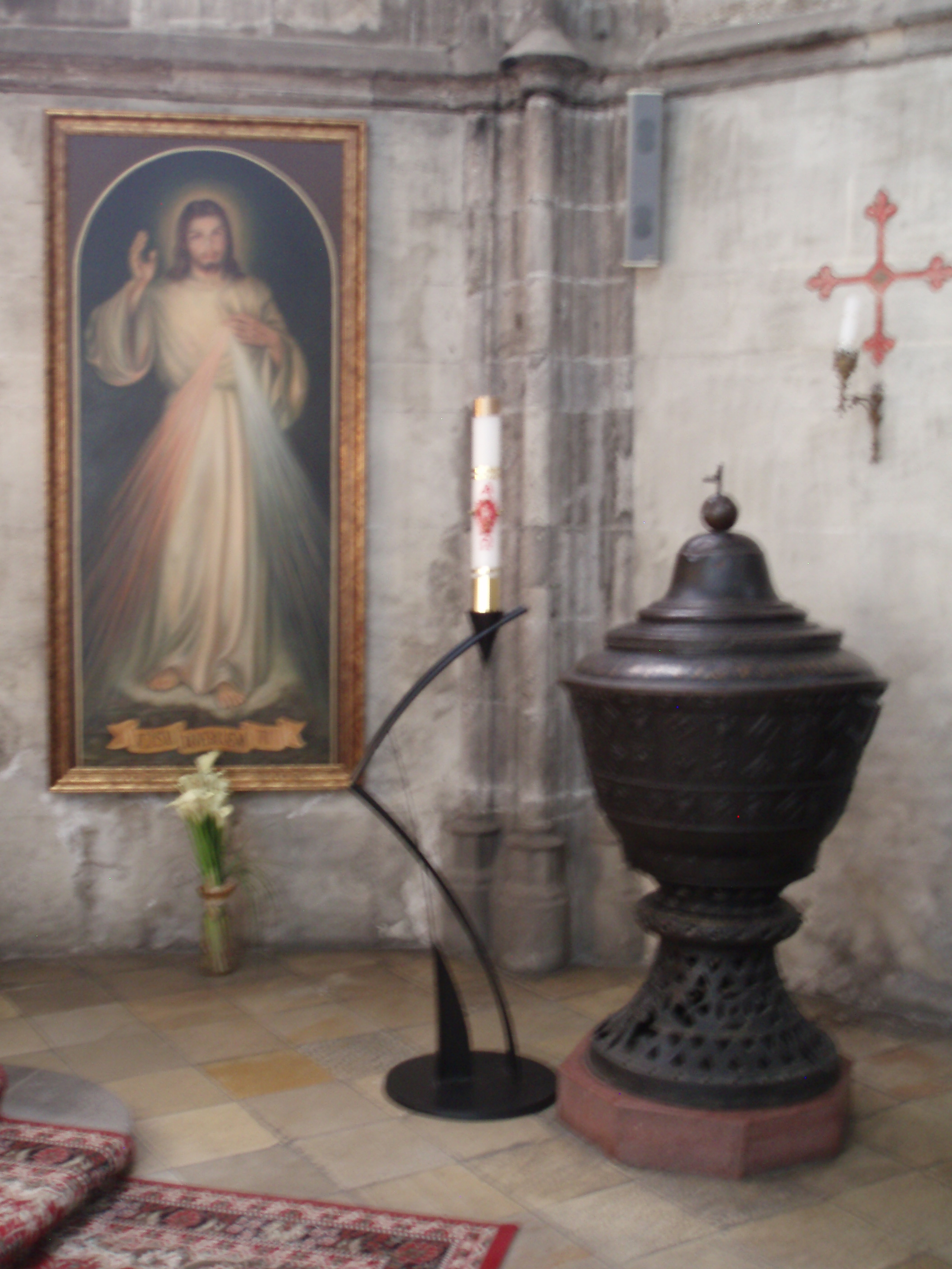 Baptismal font of St. Elisabeth Cathedral, Košice, 14th century